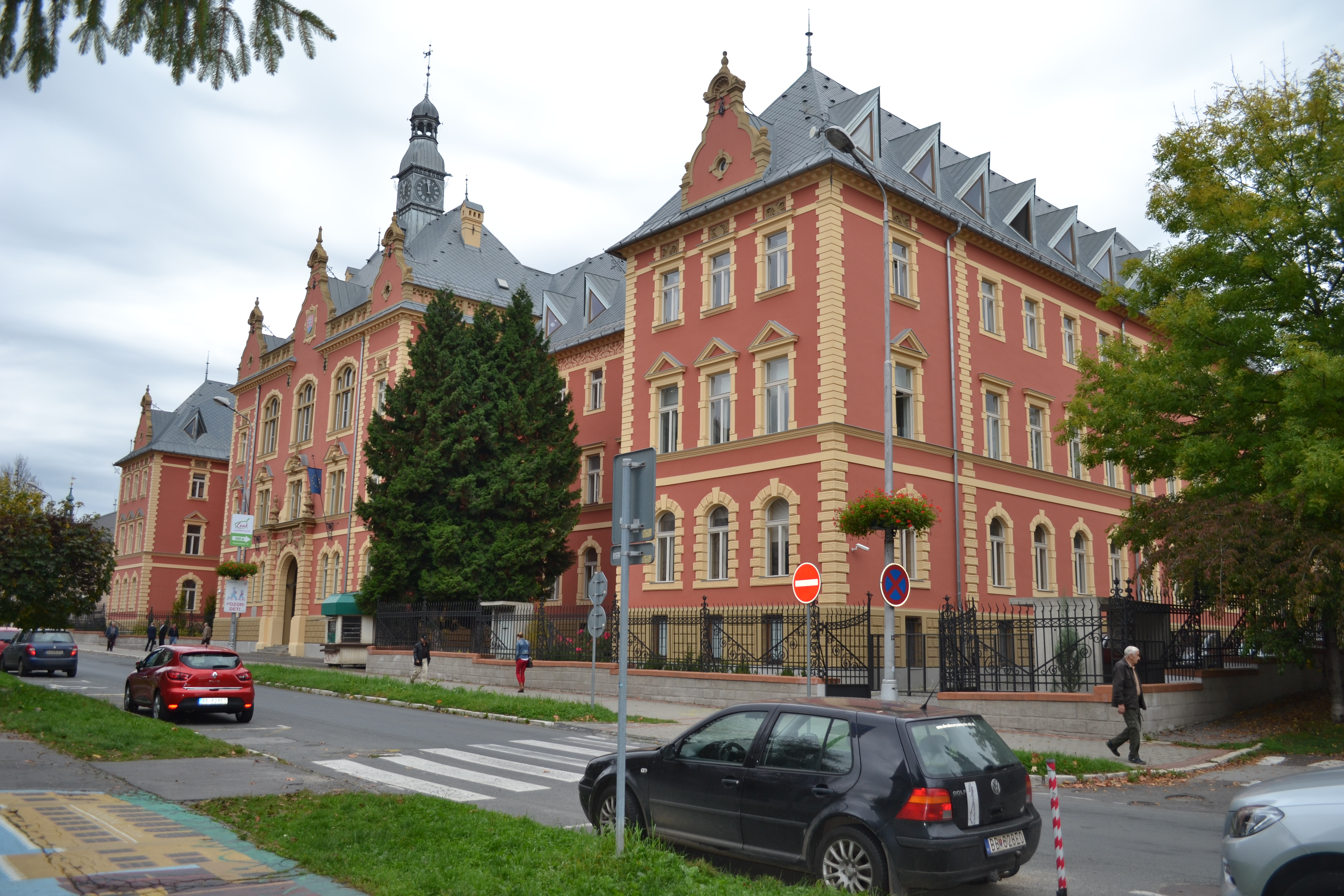 Memorial court, Skutecký Dominik street 7, Banská BystricaSlovenčina: Pamätný súd, ul. Dominika Skuteckého 7, Banská Bystrica